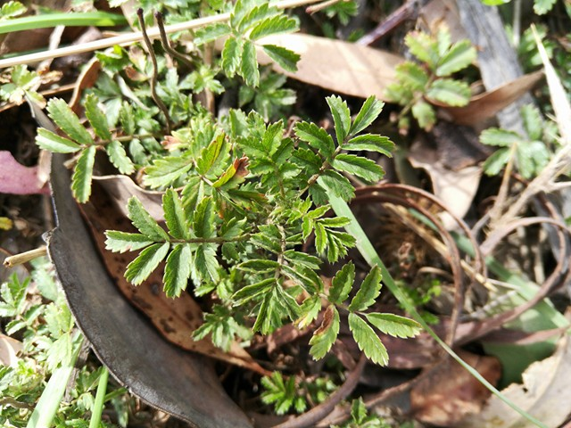 Acaena novae-zealandiae amongst leaf litter, outside Hobart, Australia